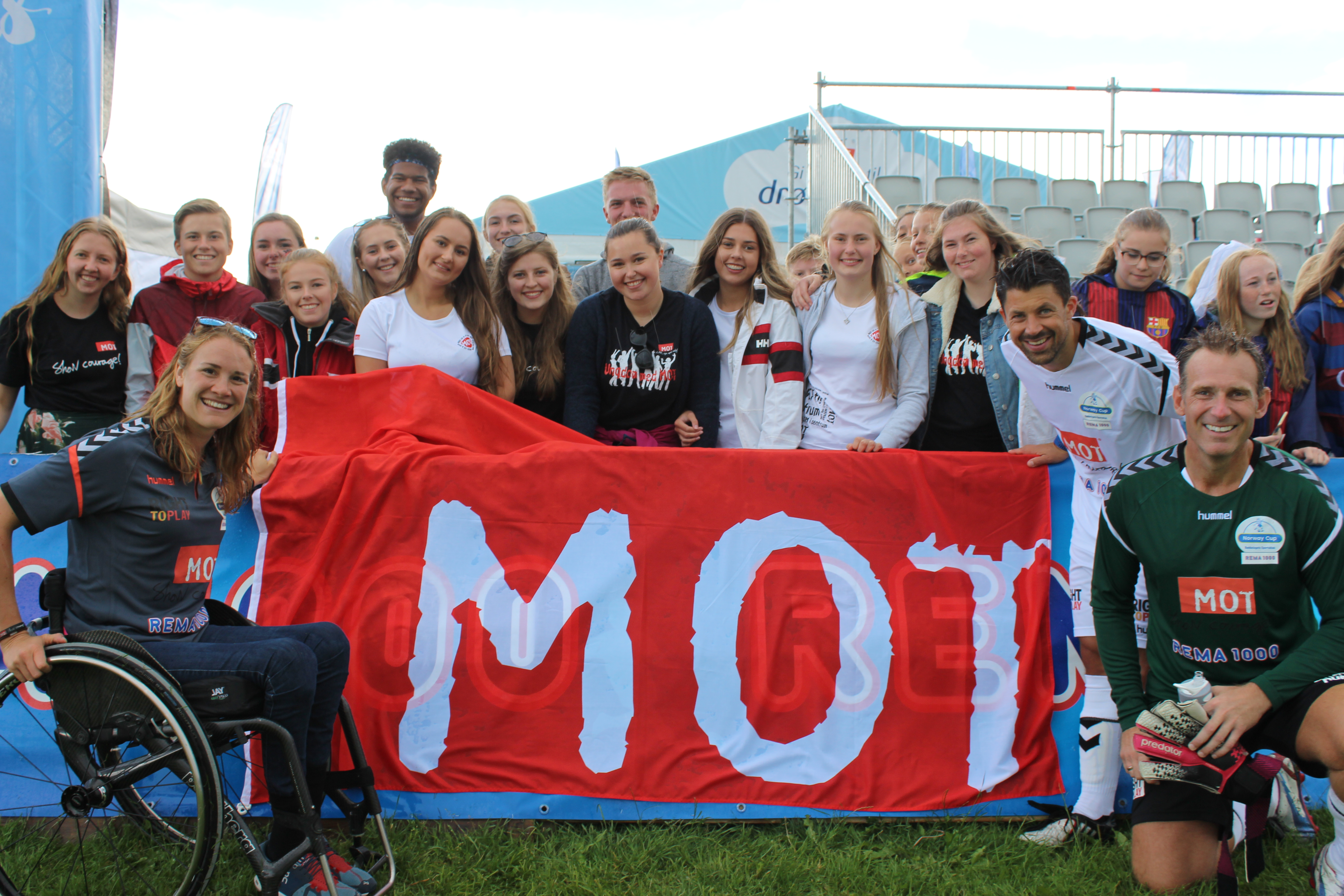 Picture taken during the big Norwegian football tournament, Norway Cup. Celeberties from Norway have their own match where they support a good cause, this time it was MOT.